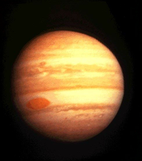 Pioneer 10 image of Jupiter (image A50, taken on 1973/12/01 at a distance of 2557000 Km). Note how the Great Red Spot is more prominent when Pioneer passed by than when the Voyager probes later visited Jupiter. This is an approximate color image since Pioneer only had 2 color filters instead of the 3 needed for true color (to human eyes). The spot in general may have simply looked more prominent in 1974 because it is not in the middle of a dark band swirling around it, unlike during Voyager's time. Due to radiation interference with electronics, the probe had many difficulties acquiring complete images, and a clear view of the moon Io could not be obtained when the probe was in range. However, testing the effects of radiation on probe electronics was one of the mission goals. Future probes, such as the Voyagers, benefited from such data.